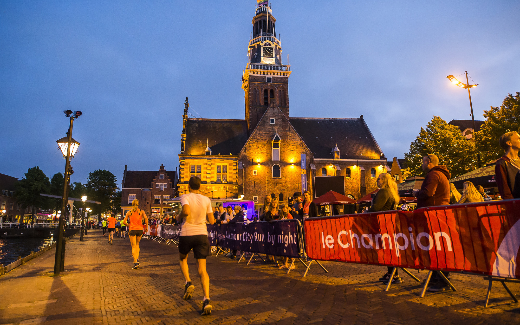 Alkmaar City Run by night